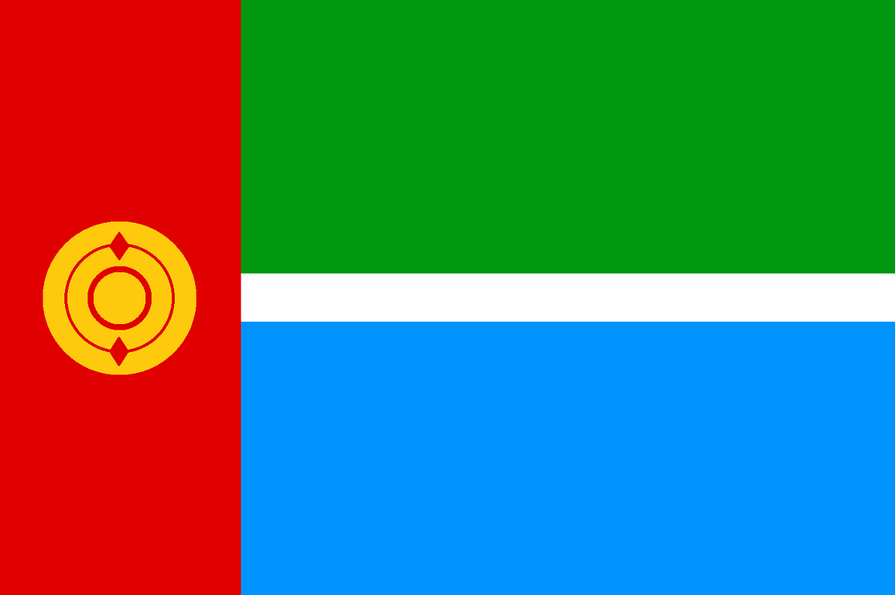 National flag of the Chulyms